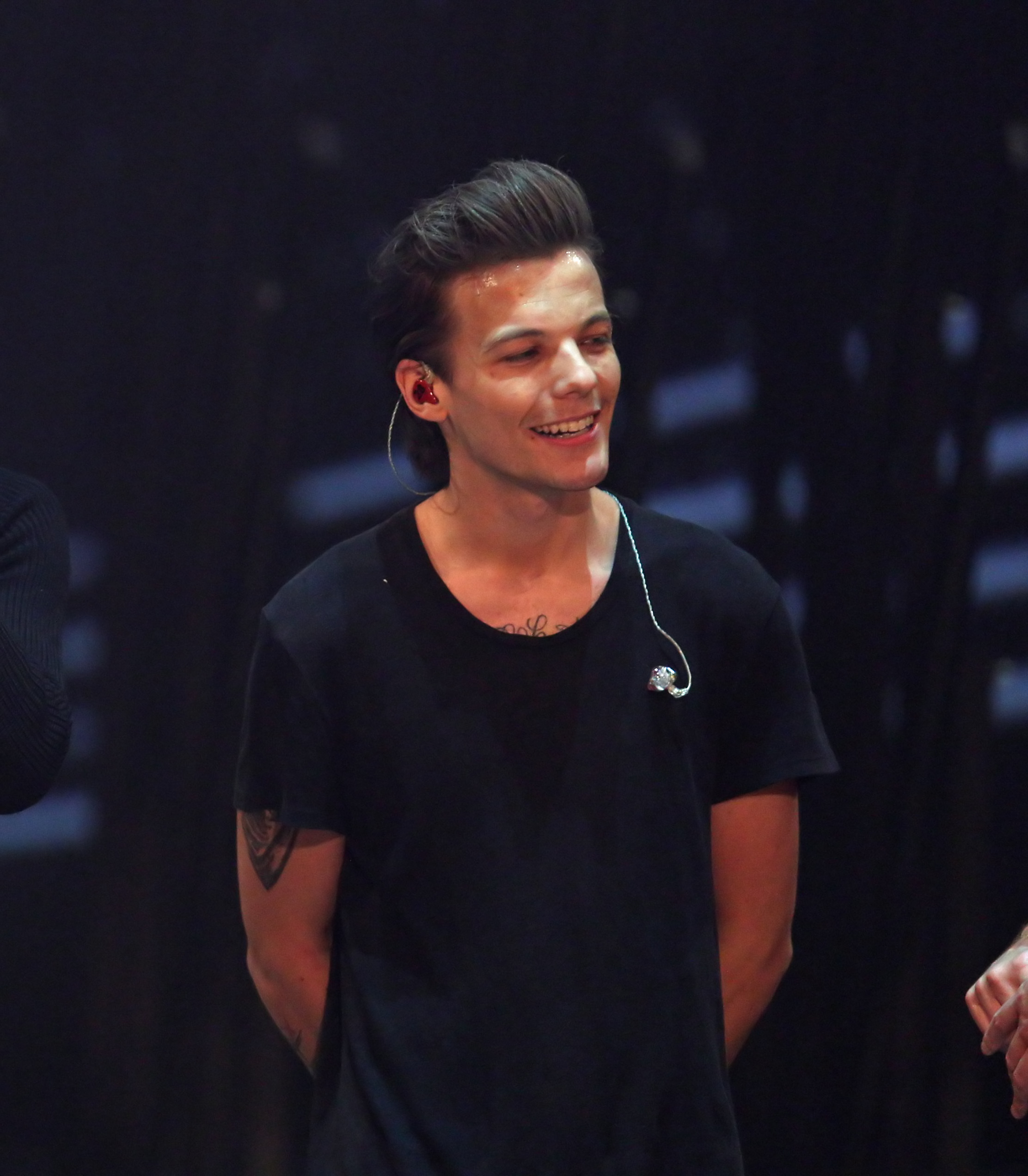 Wetten, dass.. ? 214. show in Graz, 8. Nov. 2014 Louis William Tomlinson at 214. Wetten, dass.. ? show in Graz, 8. Nov. 2014